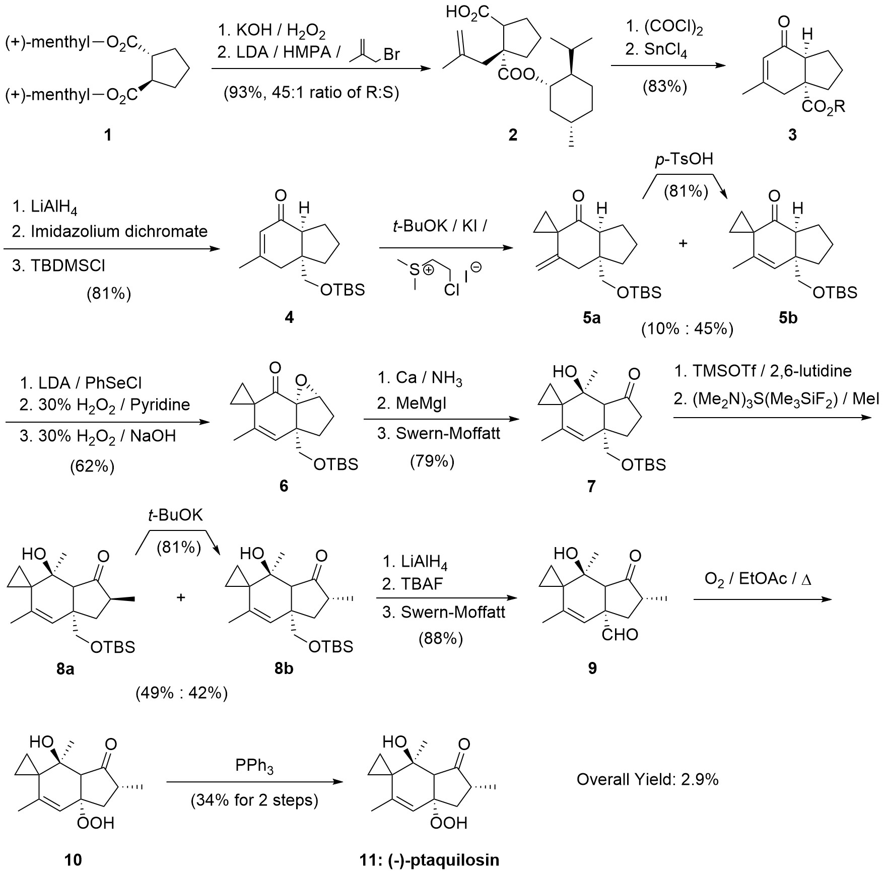 Total synthesis of naturally-occurred (-)-ptaquilosin, the aglycone of ptaquiloside, reported by Yamada and co-workers in 1993.